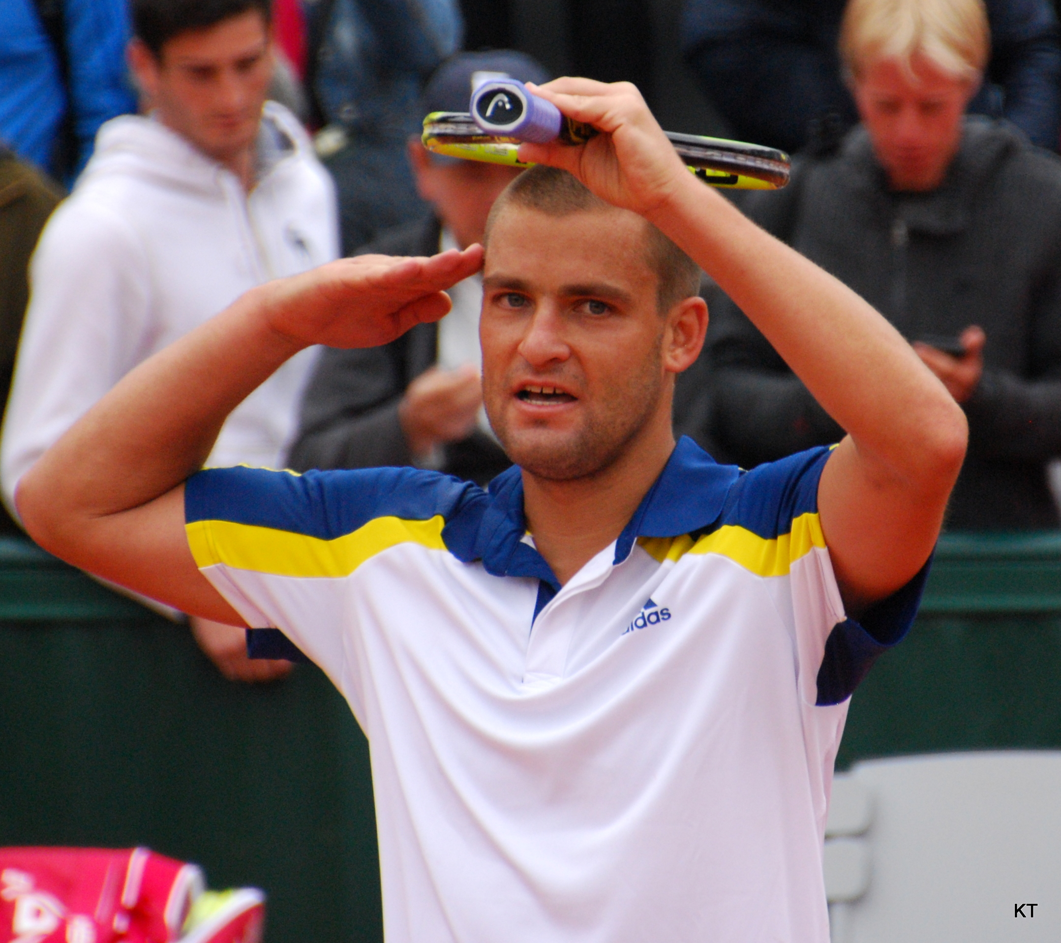 Mikhail Youzhny at the end of his 2nd round match with Federico Delbonis, which he won 6–3, 6–7 (5–7), 7–5, 6–4. Day 6 of Roland Garros 2013. I've been trying to photograph this for years!